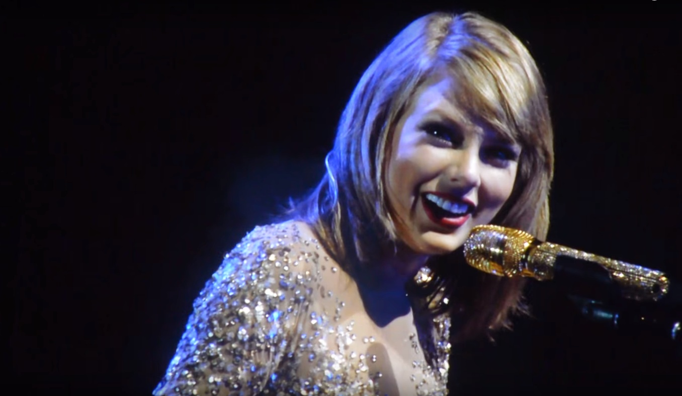 Taylor Swift Piano Enchanted+Wildest Dream (3)